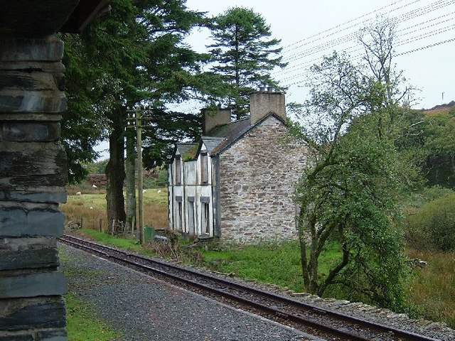 The old stationmaster's house at Dduallt, once home to the famous Welsh bard and stationmaster Gwilym Deudraeth.